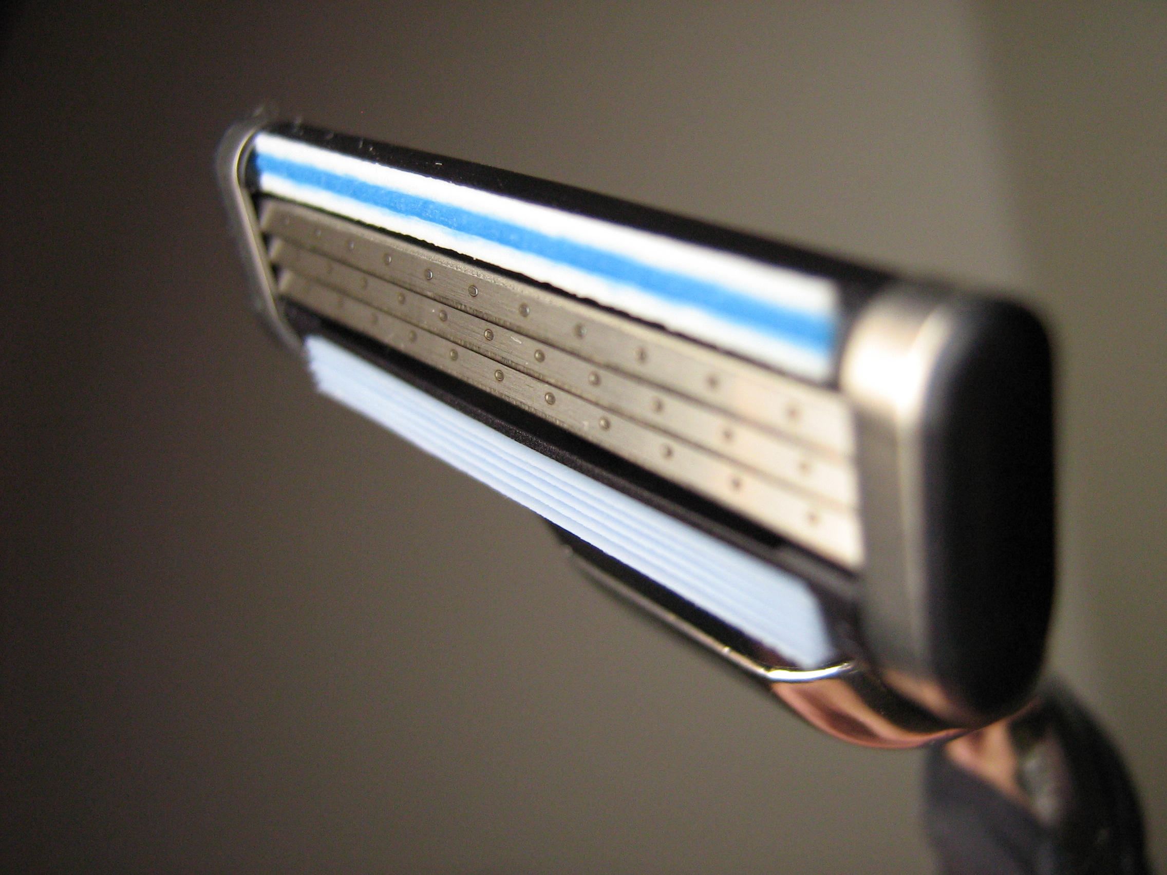 Shaving system with 3 blades. Gilette, Mach3.